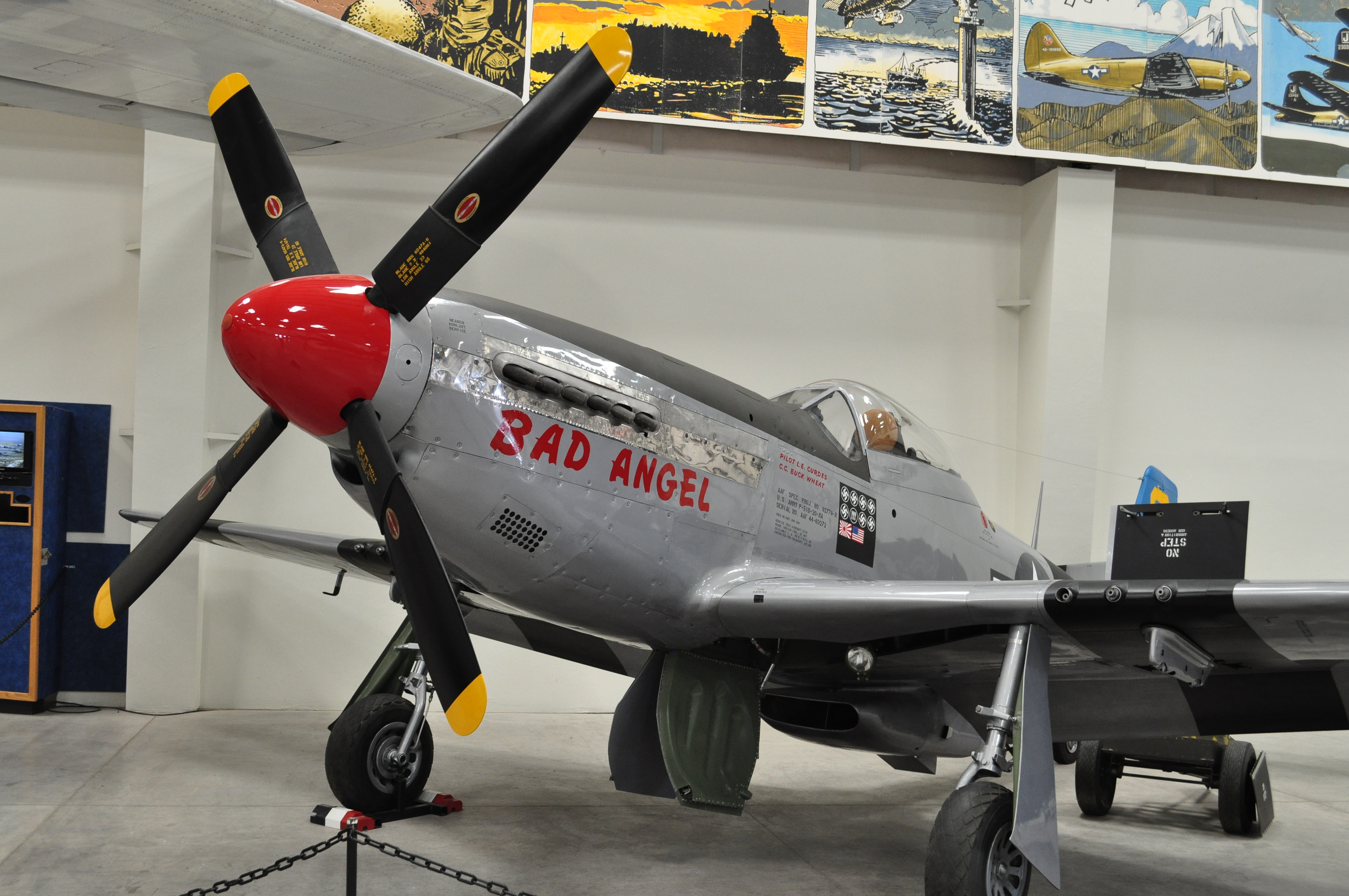 3rd Air Commando Group, 4th Fighter Squadron, Philippines, 1945 PIMA